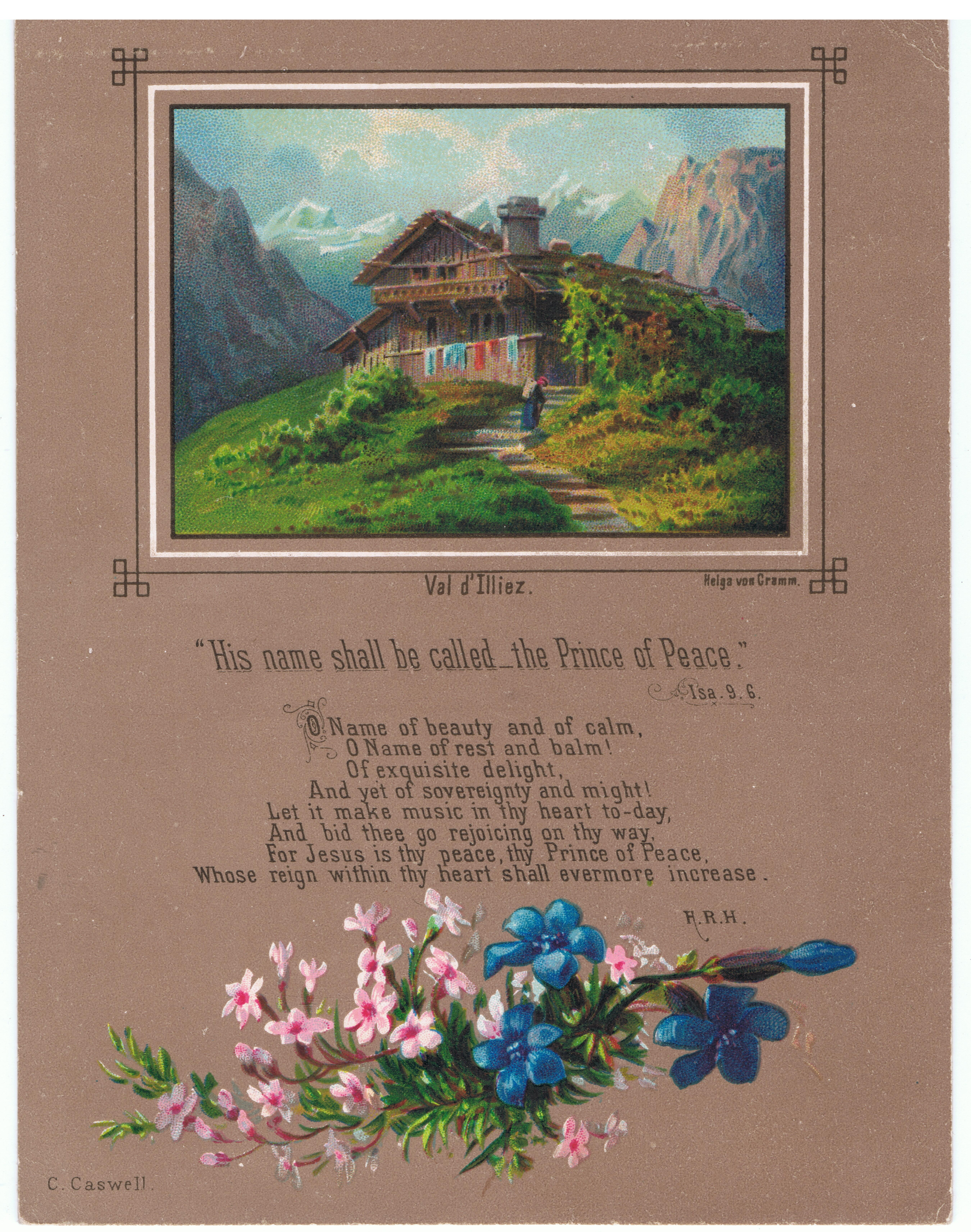 Scan (by me, R. de Salis, Rodolph (talk) 01:09, 17 January 2015 (UTC)) of Val d'Illiez, chromolithograph after Helga von Cramm, with prayer by F.R.Havergal. (4.25 x 5.625 inches).